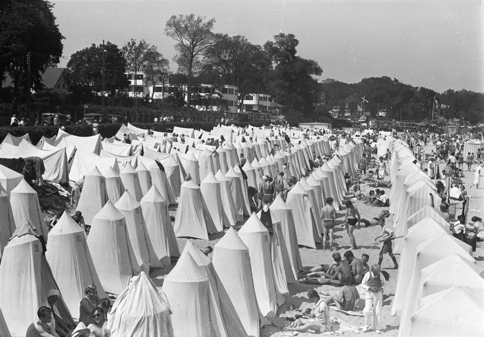 Summer at Bellevue KB id: turck_00061 Photo: Sven Türck (1897-1954) Department of Maps, Print and Photographs, The Royal Library, Denmark.